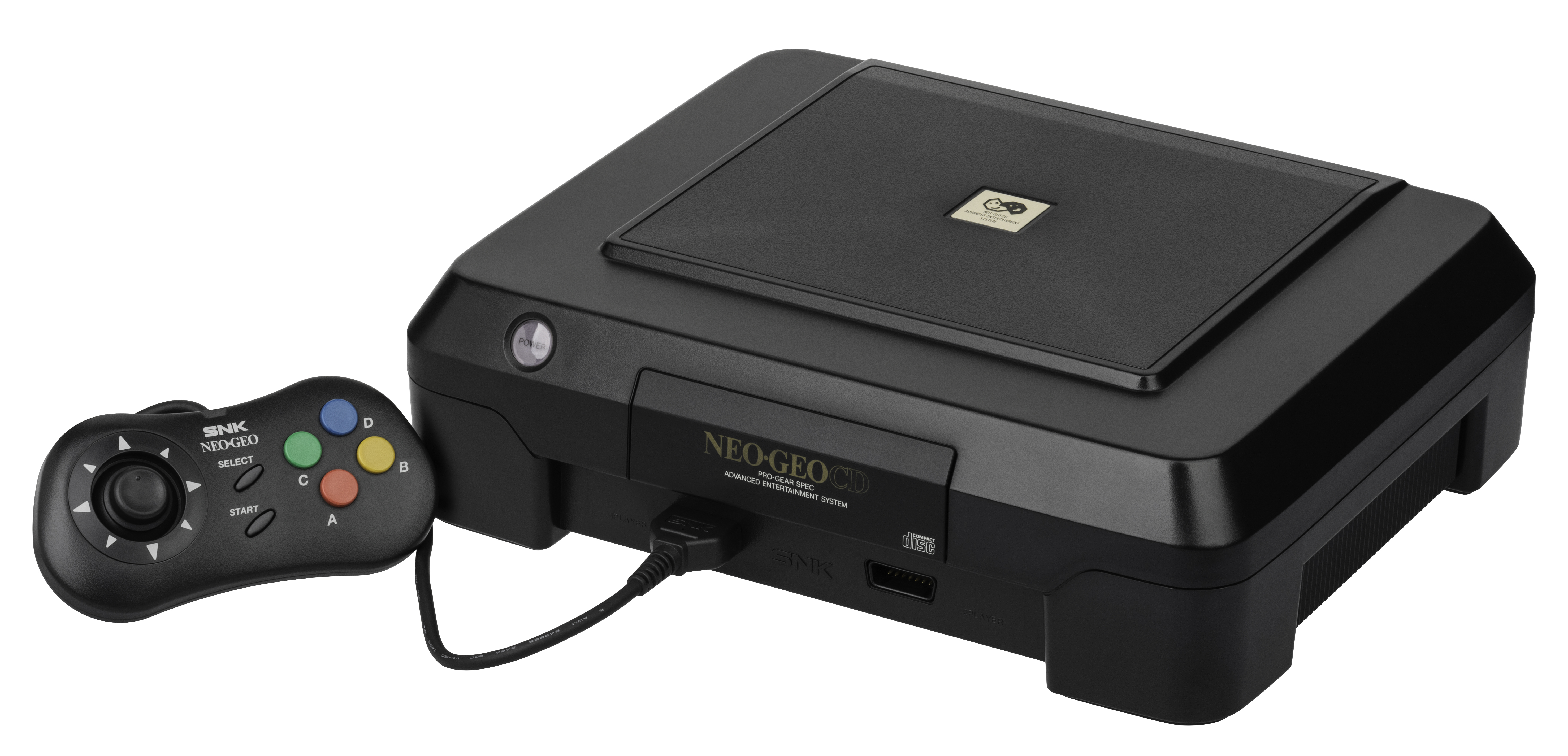 The Neo Geo CD, a video game console released by SNK in Japan in 1994. This is the front-loader model, which was the first version released and only in Japan. The Neo Geo CD was a conversion of the original Neo Geo AES hardware into a system with cheaper, more accessible media. The original AES used large cartridges that cost hundreds of dollars each, whereas this model used common CDs that cost pennies to produce. The system also included a more standard gamepad for the pack-in controller.